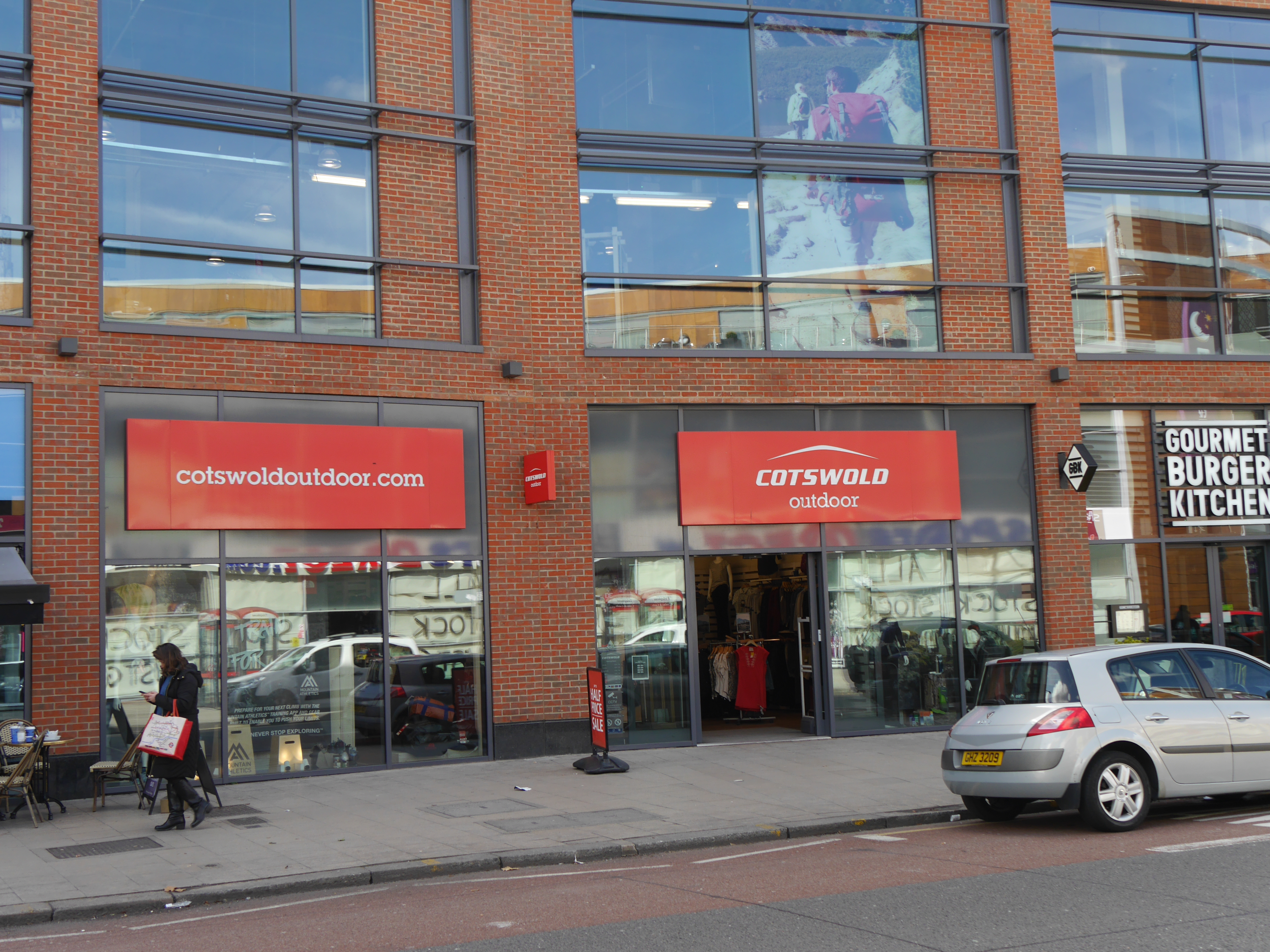 Southside Wandsworth